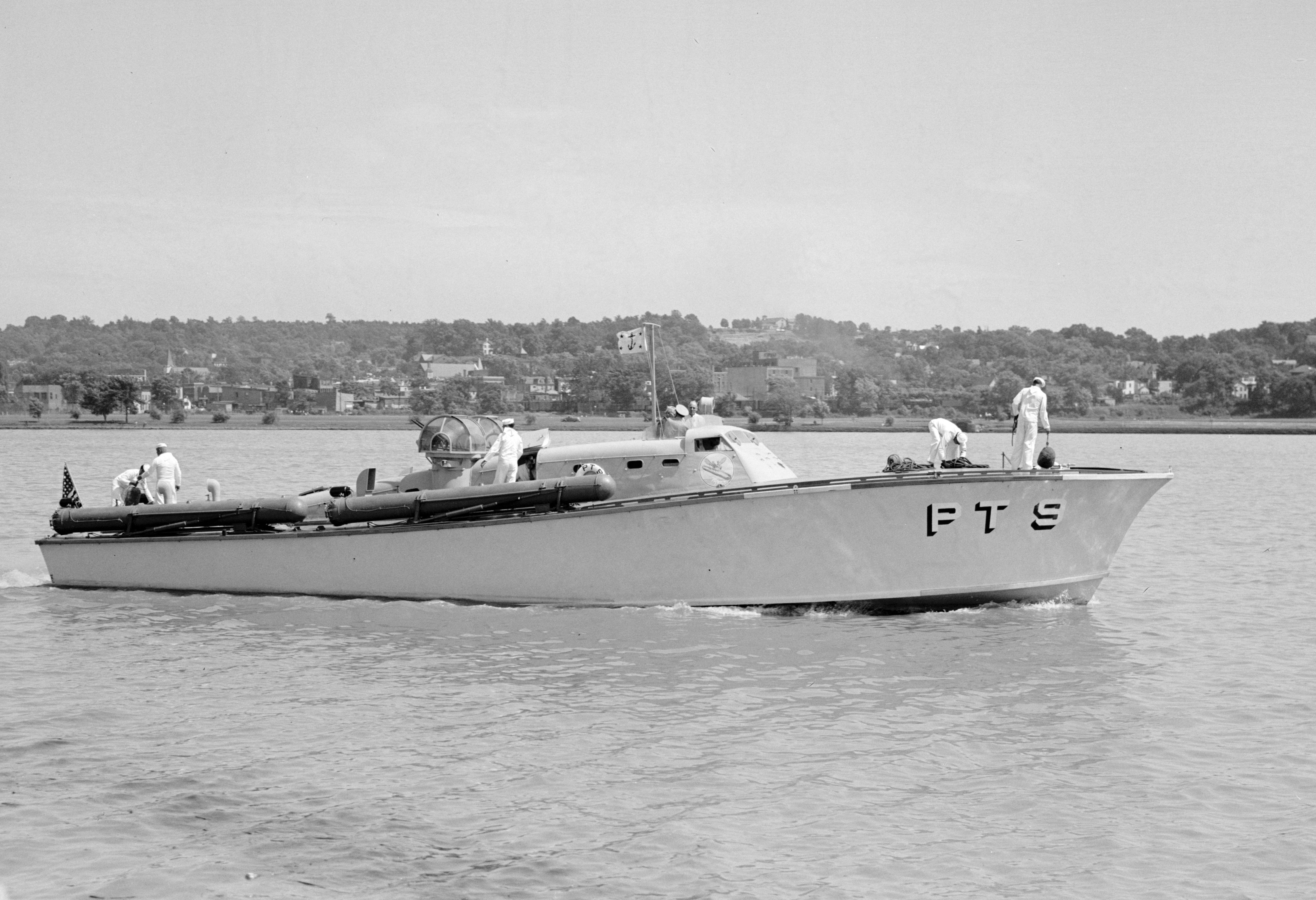 The U.S. Navy torpedo boat PT-9 at Washington, D.C., 19 June 1940. PT-9 was the only British PT boat prototype ordered. The 70 ft boat was designed by Hubert Scott-Paine and built by the British Power Boat Company. It was sold to the Royal Navy in April 1941 and served as "MTB 258". Original description: "New 'Mosquito Boat' ready for action. Washington, D.C., June 19. The PT-9, first of the American Motor Torpedo Boats to be delivered to the U.S. Navy under the President's $15,000,000 experimental small craft program had a preview showing for the press today. The 'Mosquito Boat' and eight other ones will be based at the naval operating base, Norfolk, Va., where they will undergo service tests under various sea conditions to determine their capabilities and limitations. This is the same type of boat that the government is in the process of releasing to the British Navy. Chairman David L. Walsh of the Senate Naval Affairs Committee expressed indignation over the Navy's action in this respect in view of the fact that this government is trying to build up its own sea power."